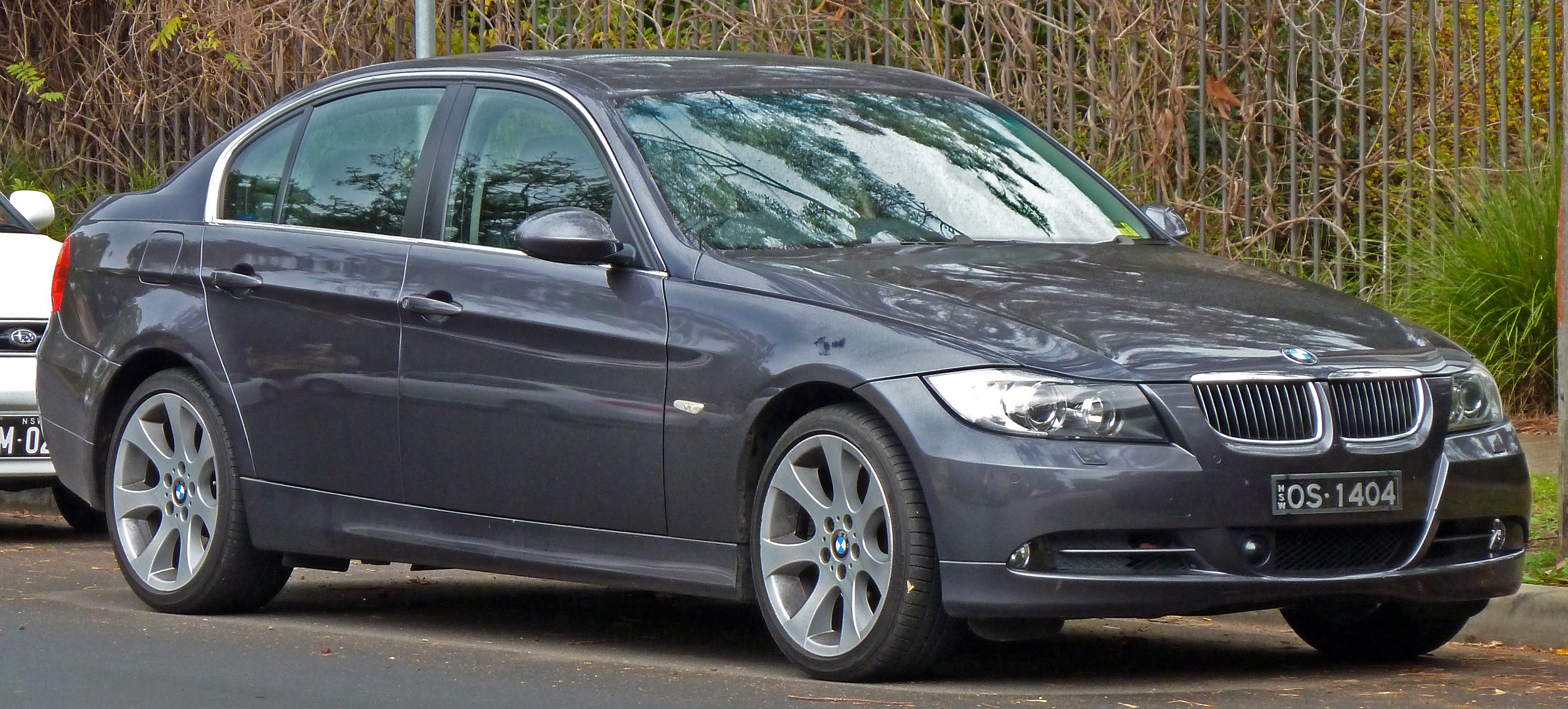 2005–2006 BMW 330i (E90) sedan. Photographed in Gymea, New South Wales, Australia.